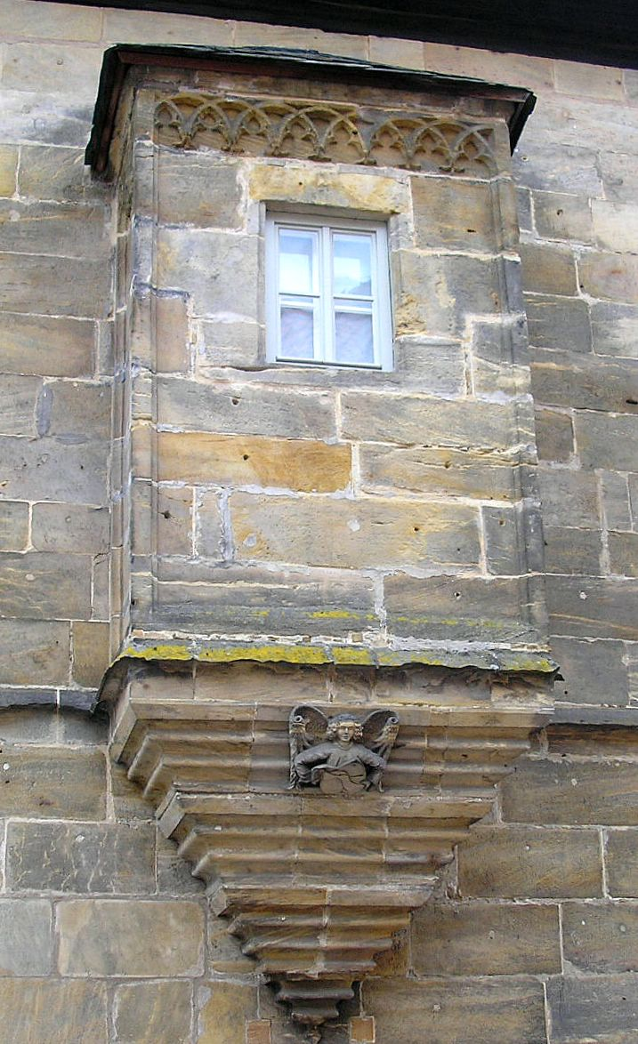 Ebern (Landkreis Haßberge, Lower Franconia, Germany). Late gothic bay window with interlaced arch ornament at the "Karner" (Ossuary) of the former cemetery